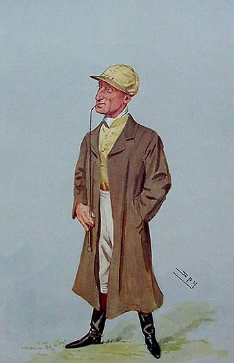 Caricature of William Arnold Higgs (1880-1958), British jockey. Caption read "Top of the List". Brief biography